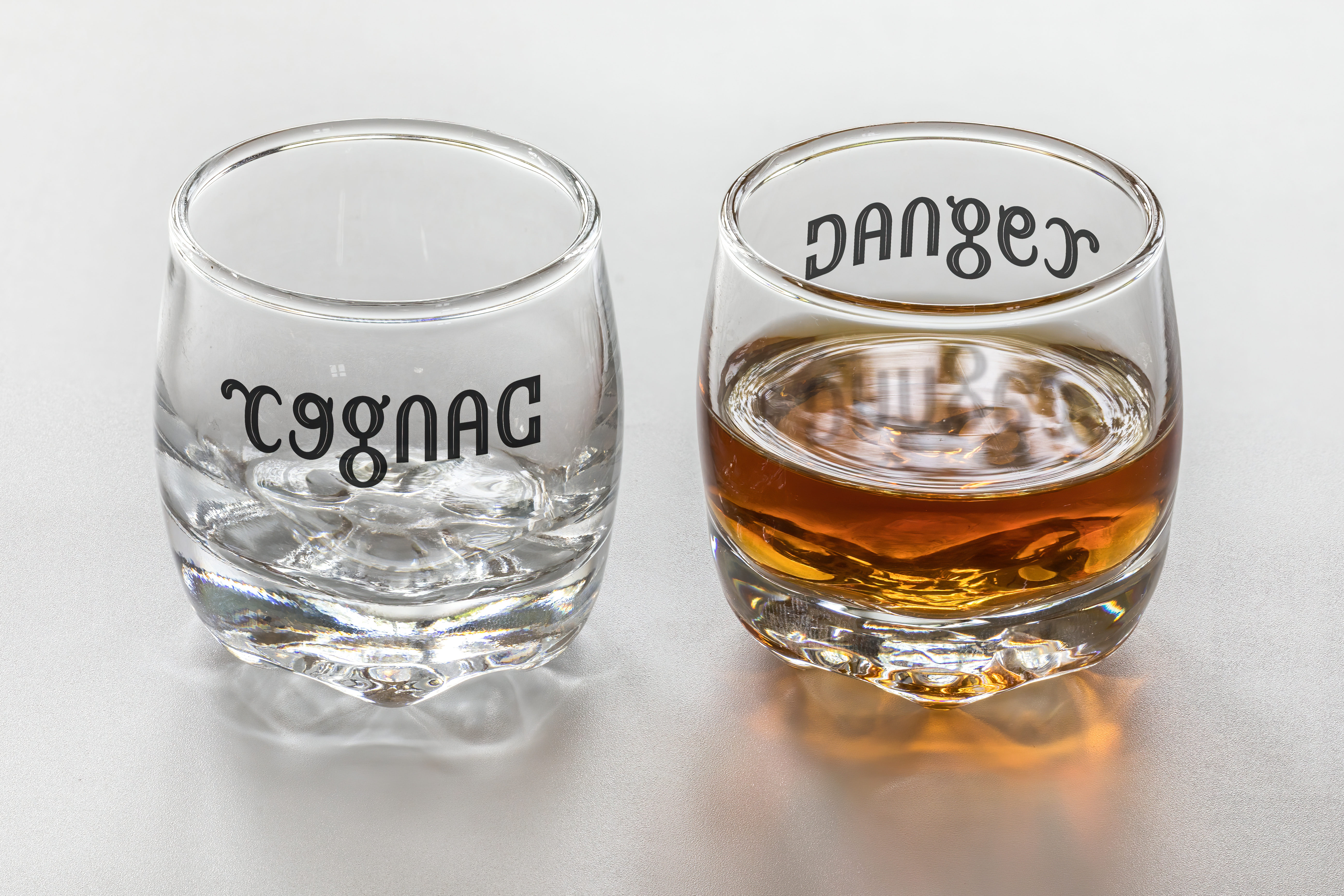 Ambigram Cognac / Danger, mirror symmetry (vertical axis), front and back, on a set of two shot glasses (empty and full). Humorous warning related to alcohol consumption. Focus stacking from 8 pictures.